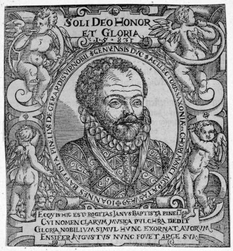 Italian singer and composer Giovanni Battista Pinello di Ghirardi (ca. 1544-1587).